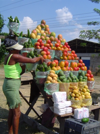 Woman selling mangoes on the highway between Caracas and Maracay (Venezuela).